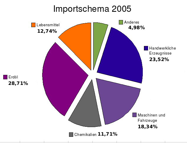 imports of jamaica 2005